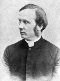 Martin von Nathusius, prof Greifswald